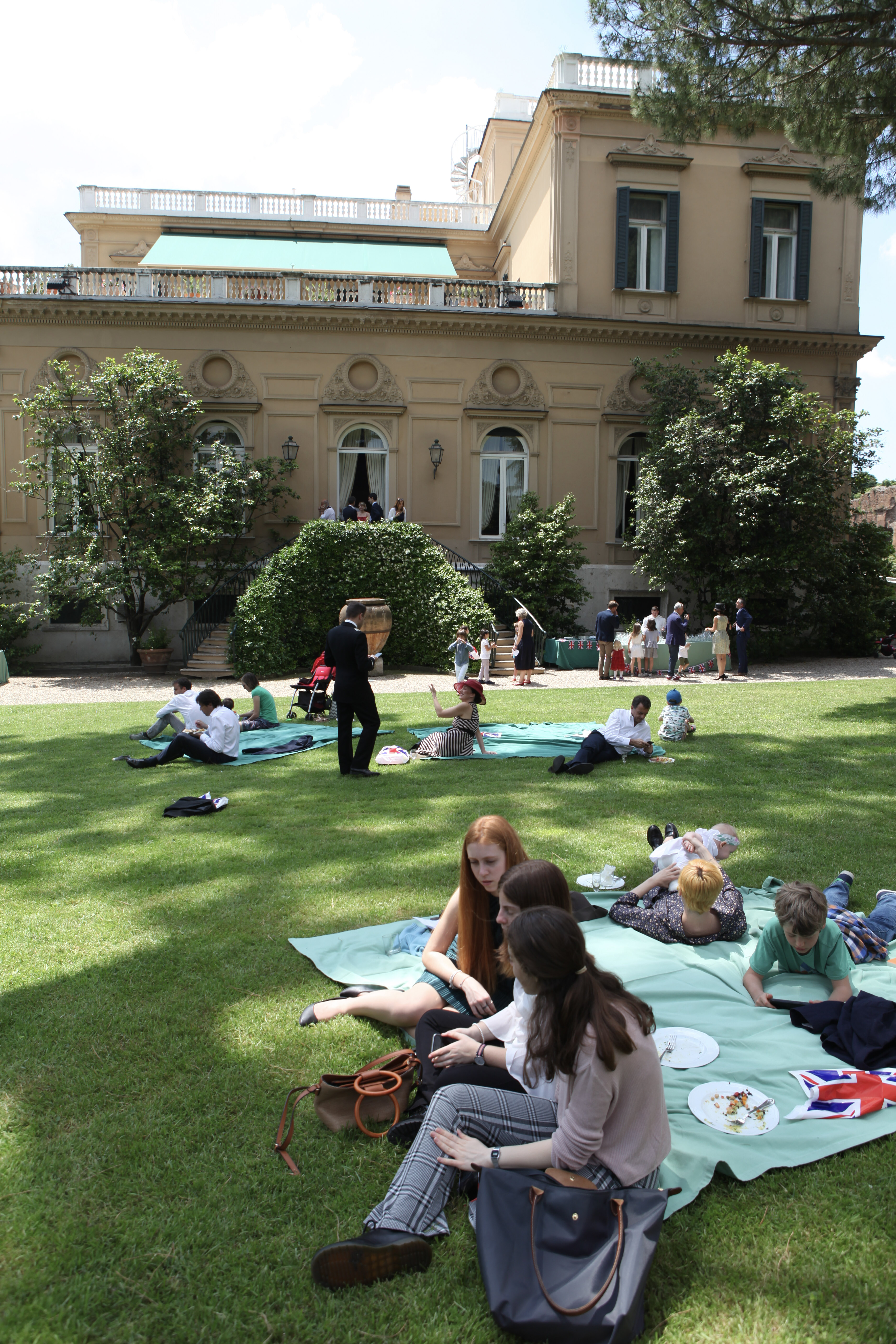 Royal Wedding celebrations in Rome